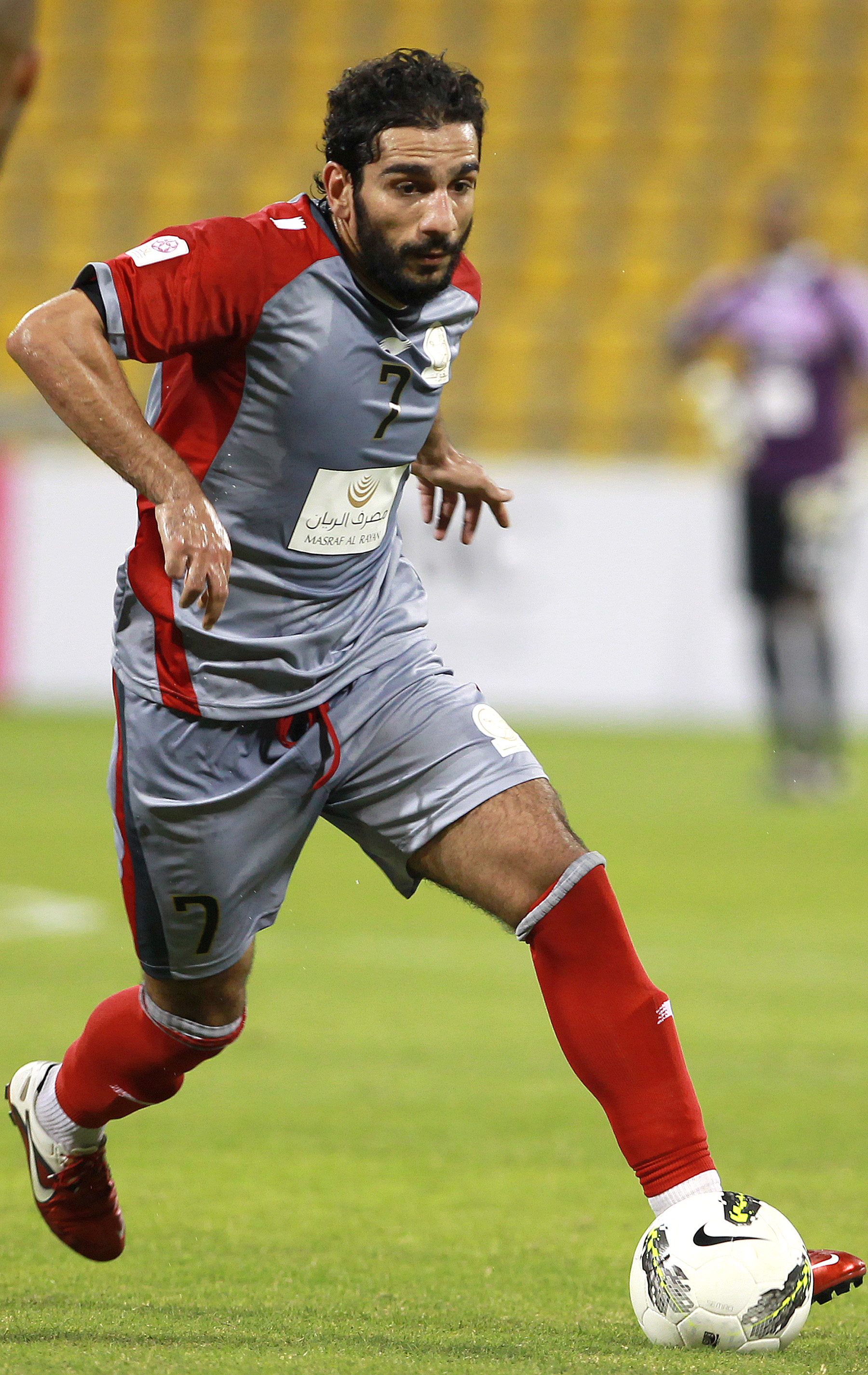 Lekhwiya's Adel Lamy runs with the ball during the team's Qatar Stars League match.